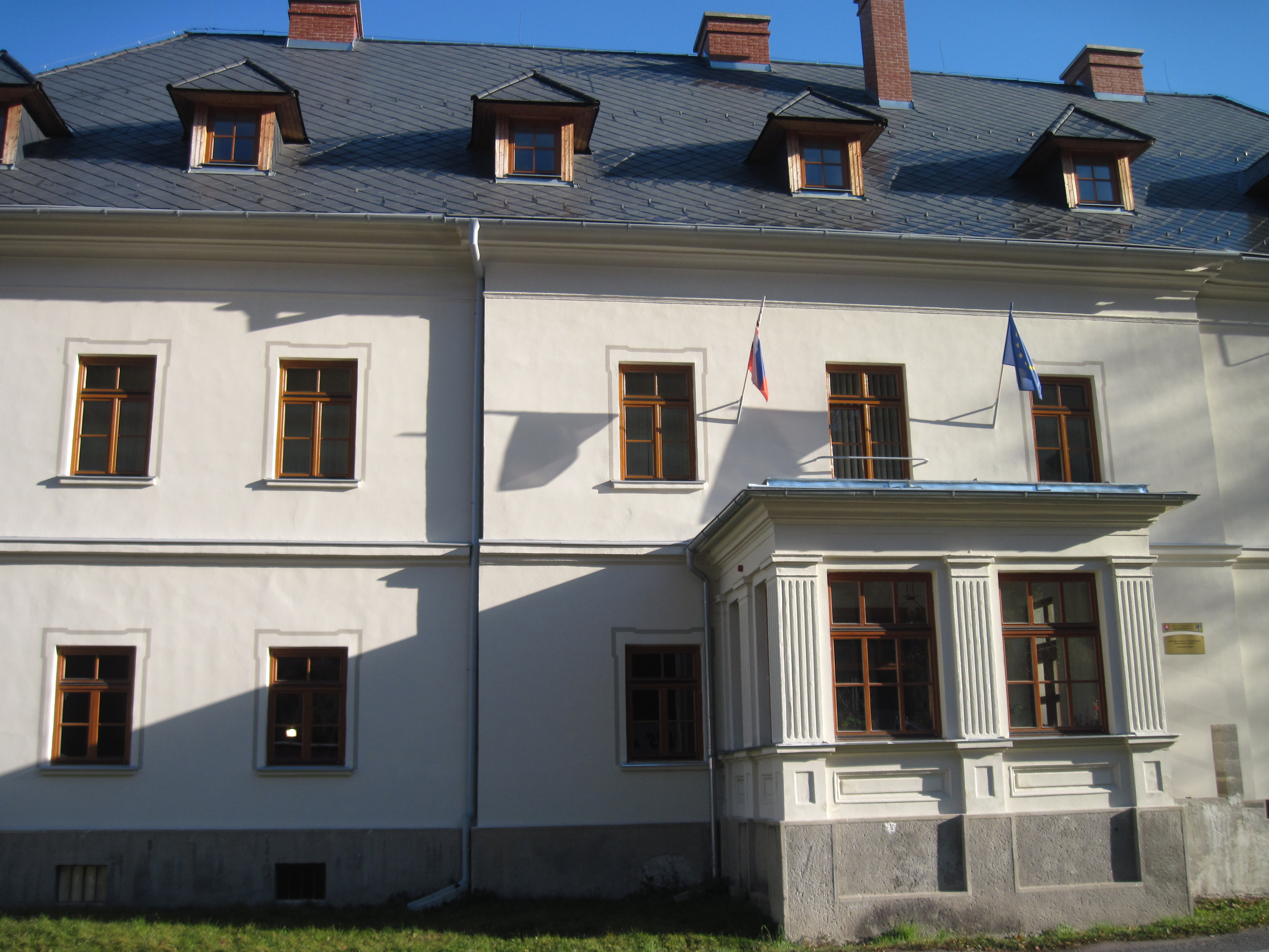 Historical building of the former Salt Office in Liptovsky Hradok, since 2004 housing the Ethnographical Museum of Liptov.